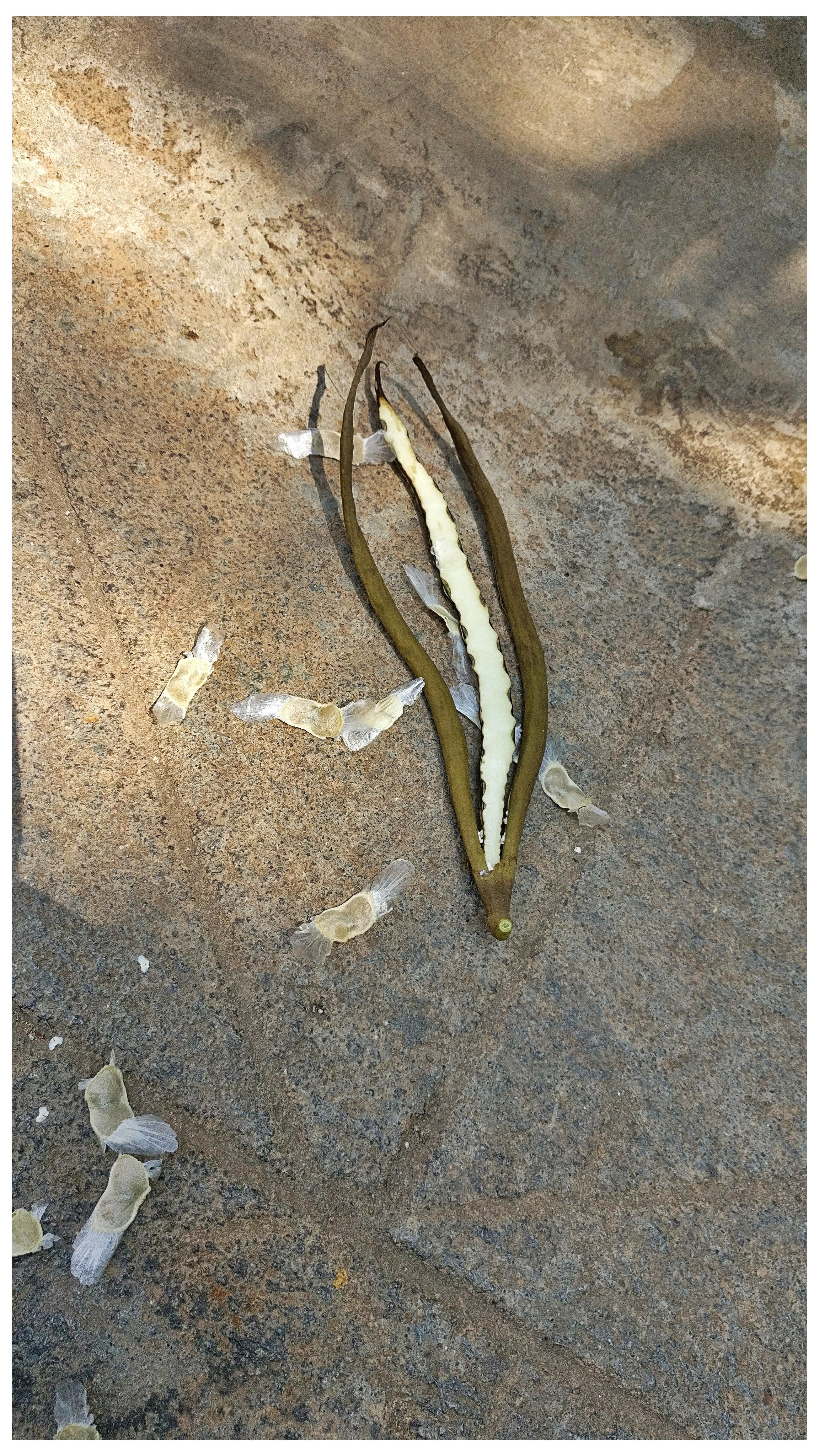 A pod of Tabebuia Rosea and its winged-seeds.